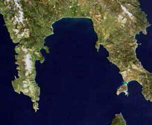 Satellite picture of Laconic Gulf, Greece.